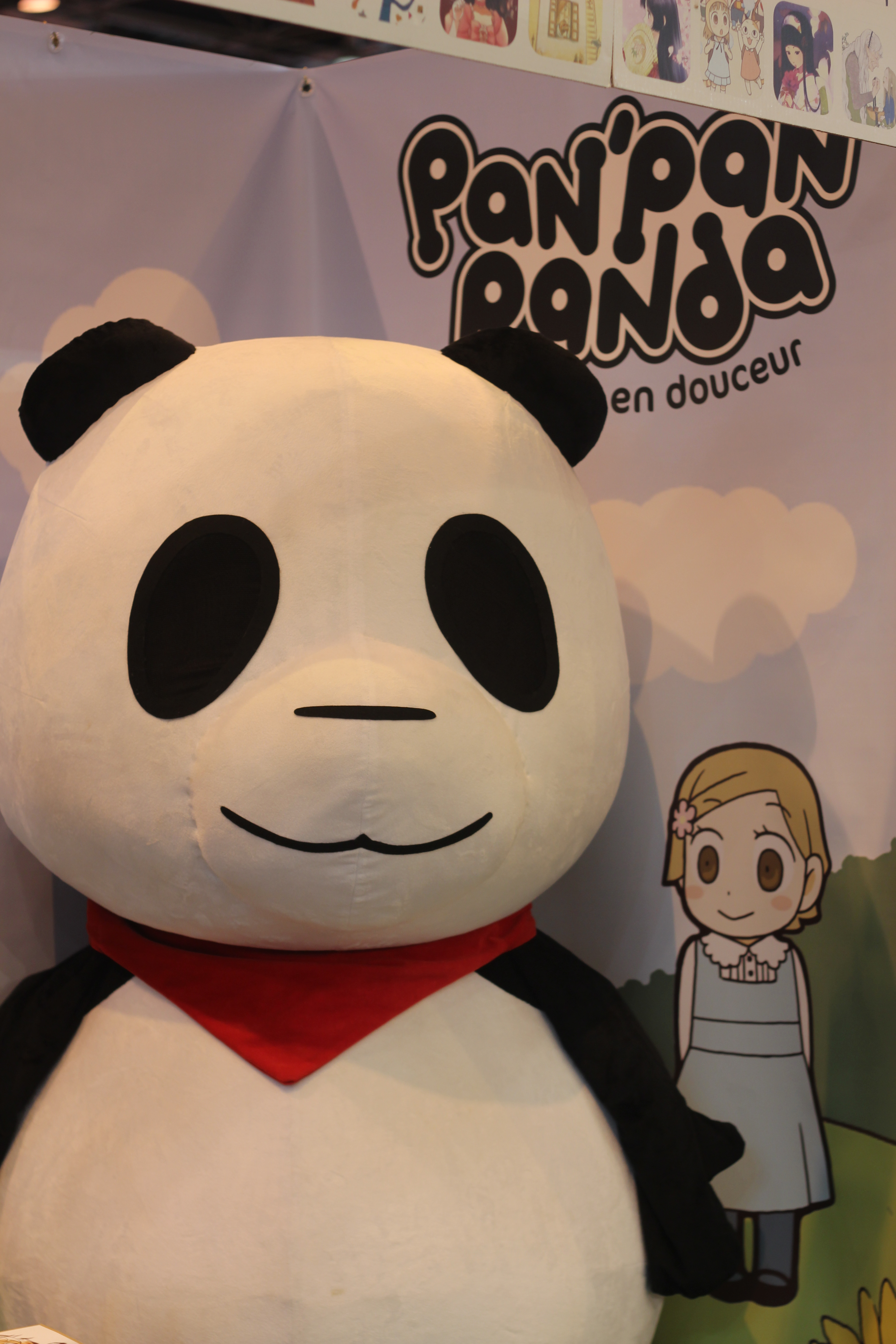 2015 Paris Book Fair, from 20 to 23 March 2015, Paris expo Porte de Versailles.